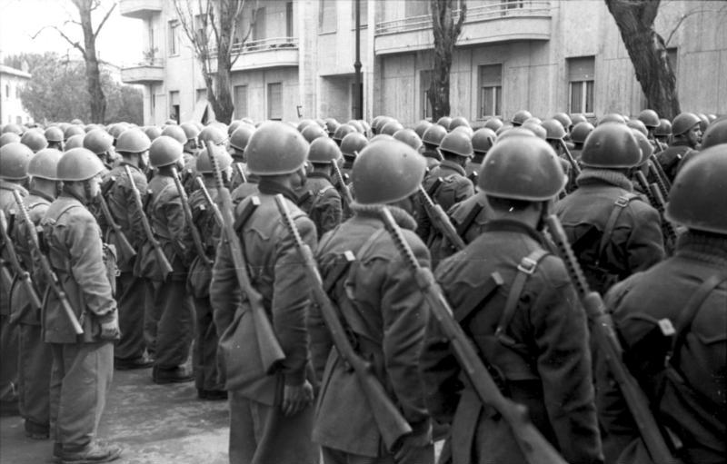 Roma, Italia, marzo 1944. Truppe della Decima MAS (Repubblica Sociale Italiana), schierate in viale Carso, presso piazza Bainsizza, rione Prati, ispezionate dal generale della Luftwaffe Kurt Mälzer in occasione del loro dispiegamento sul fronte della testa di ponte alleata ad Anzio - Nettuno a sud di Roma. Information added by Wikimedia users.Rome, Italy, March 1944. Italian troops of the X MAS (belonging to the RSI Navy, and fighting as allies of the Germans) standing in viale Carso near piazza Bainsizza (Prati district, see here), inspected by General der Luftwaffe Kurt Mälzer (see here) around the time this unit was deployed to counter the Allied beachhead at Anzio - Nettuno, south of Rome. See also: File:Bundesarchiv_Bild_101I-311-0926-08,_Italien,_italienische_Soldaten,_deutscher_General.jpg and File:Bundesarchiv Bild 101I-311-0926-09, Italien, italienische Soldaten, deutscher General.jpg.